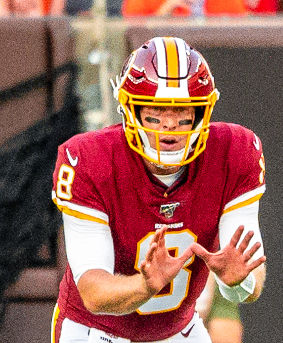 Washington Redskins quarterback, Case Keenum, about to take a snap against the Cleveland Browns in a preseason game on August 8, 2019.